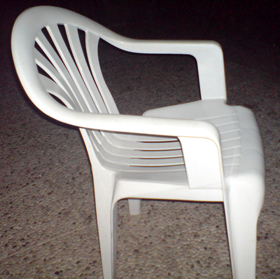 Garden chair